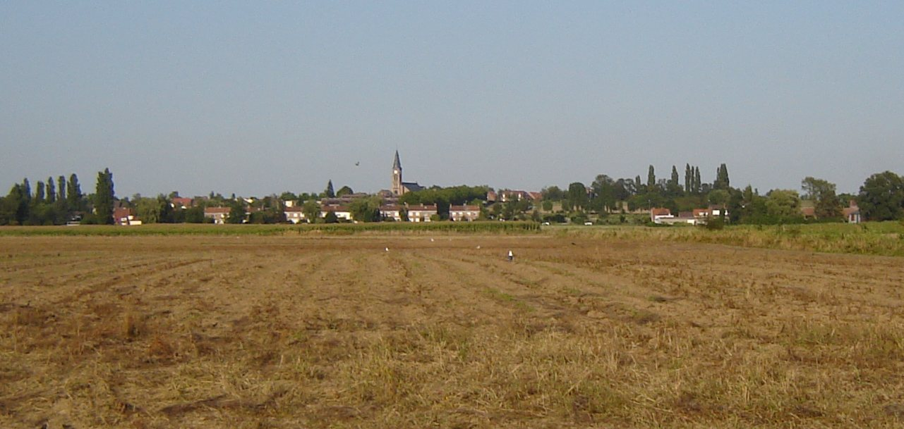 District Mont d'Halluin in Halluin, Nord, Nord-Pas-de-Calais, FrancePicture taken from Ch. de Péruwelz in NE direction.